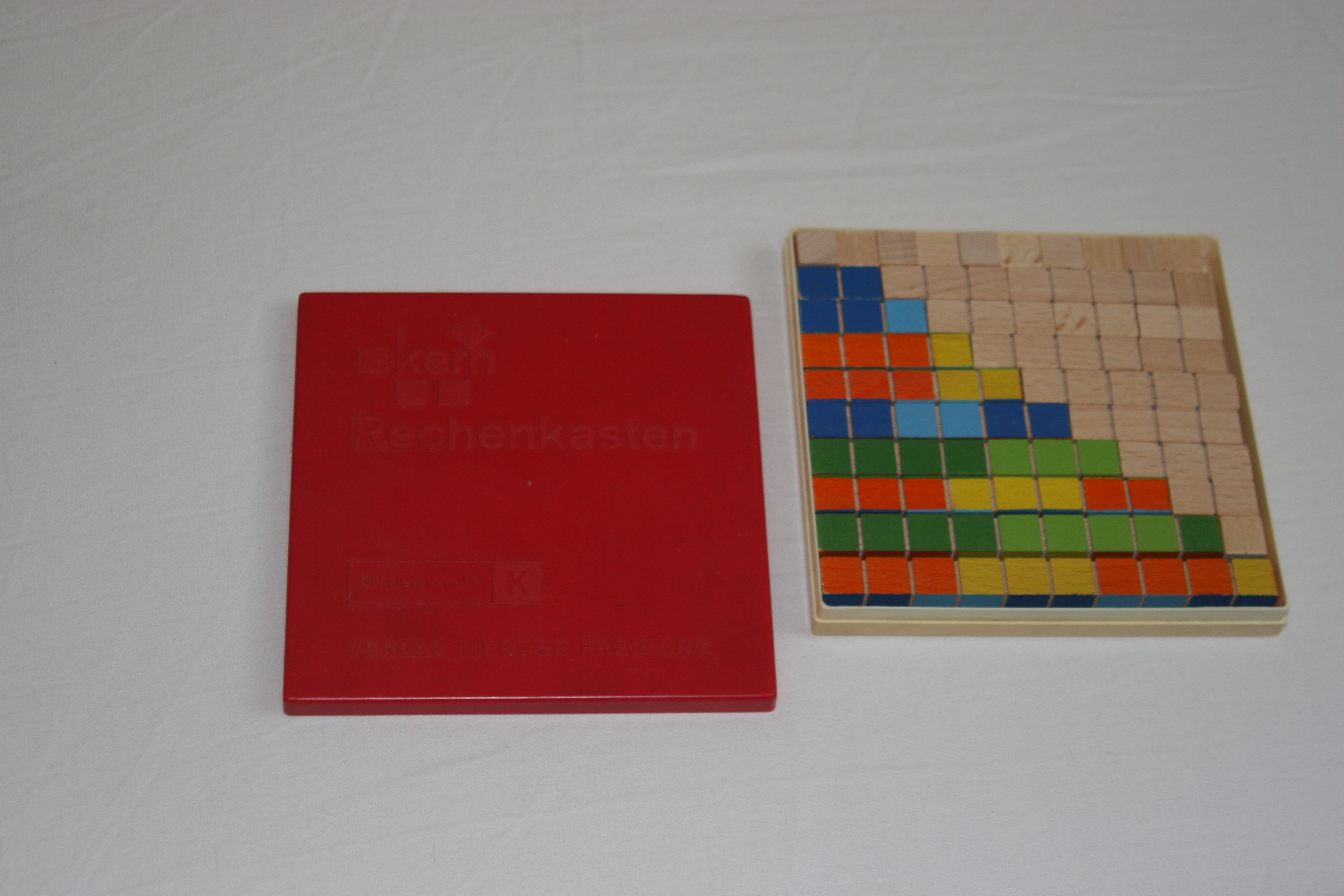 calculator box for elementary school